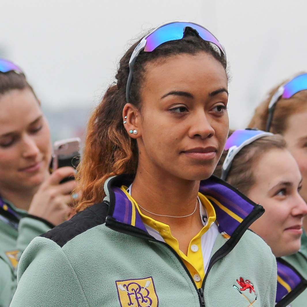 The Cancer Research UK Boat Race 2018 - Women's Blues Race - Coin Toss